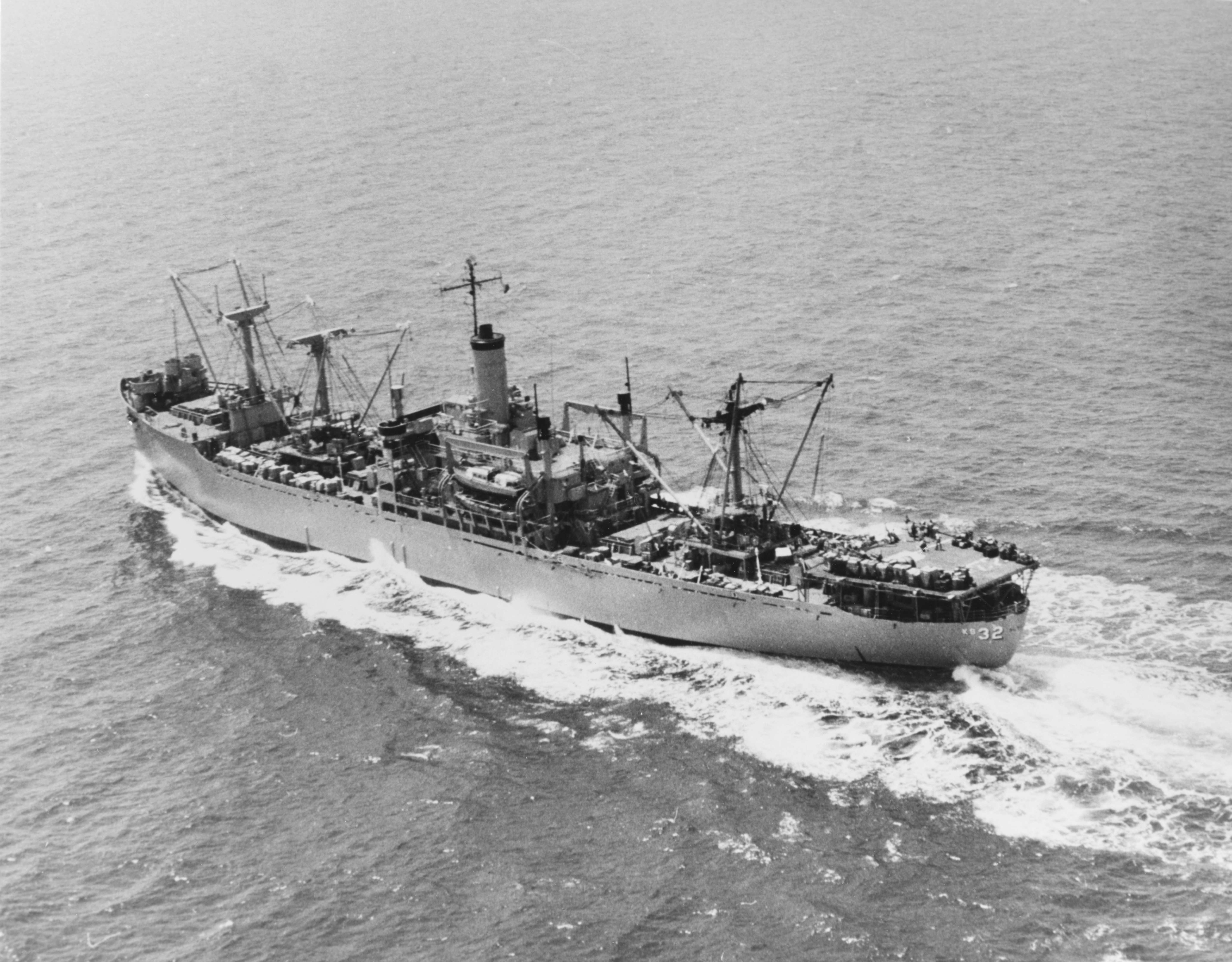 The U.S. Navy general stores issue ship USS Altair (AKS-32) underway, circa in 1966. From the appearance of her decks and helicopter landing pad, aft, she is ready to commence an underway replenishment.